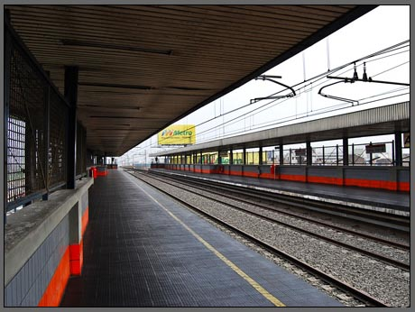 Atocongo Station, Lima Metro